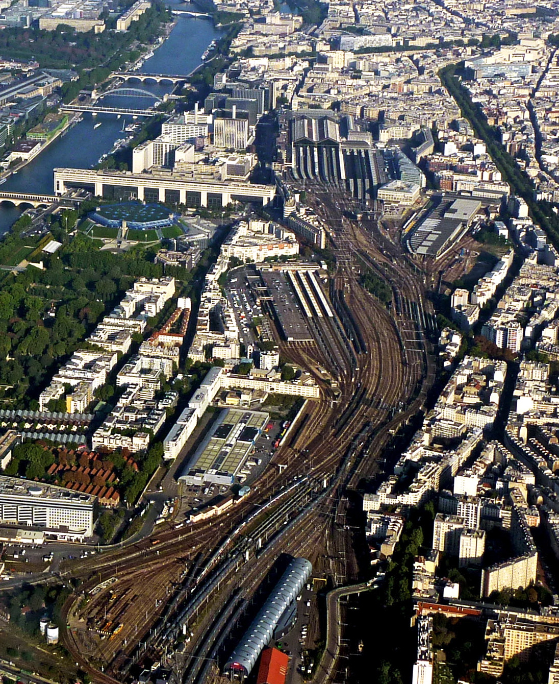 Aerial photograph of Paris.